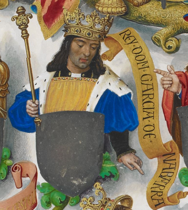 Garcia III Sanches, Rei de Navarra